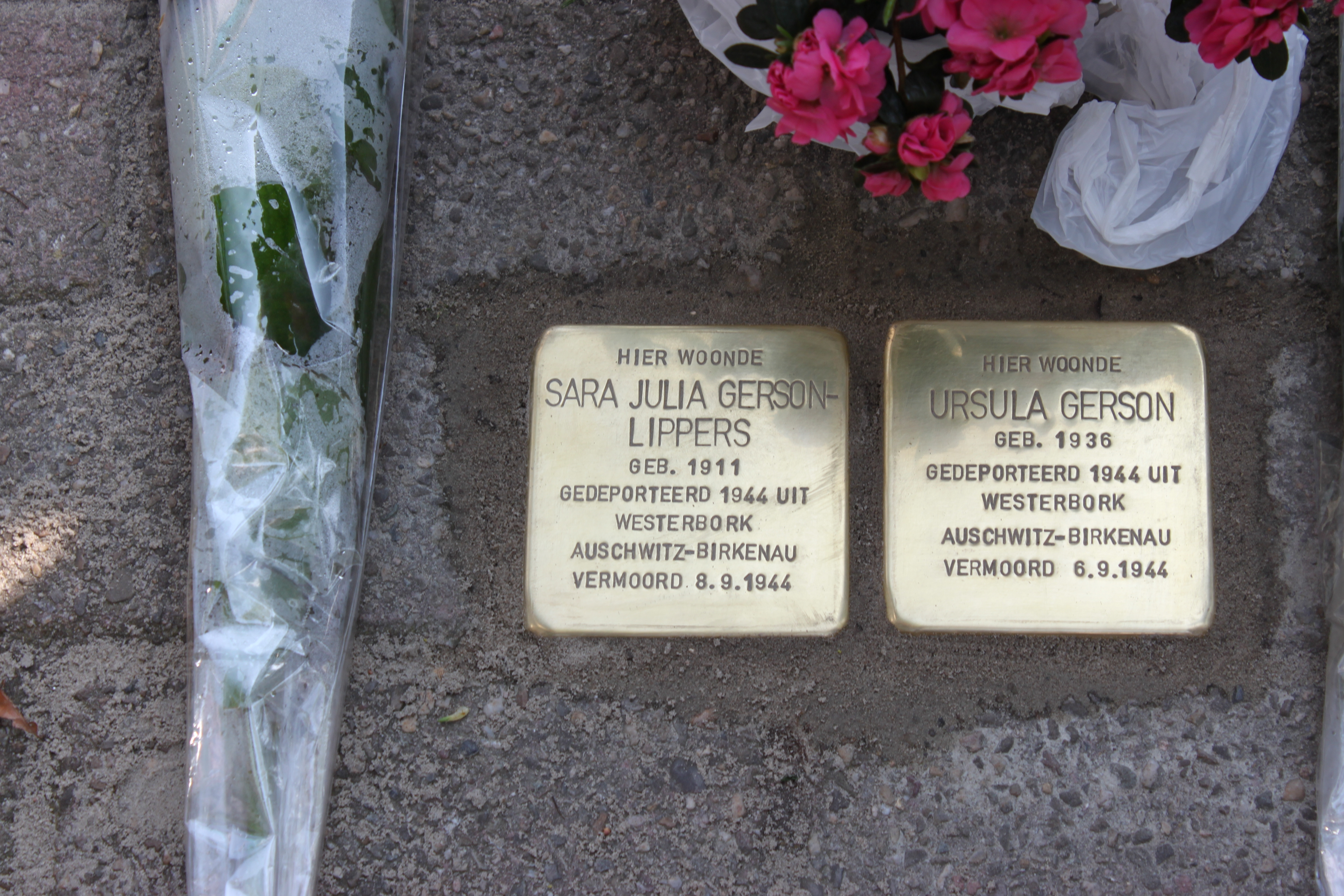 Stolpersteine in Hattem on April 22nd, 2011: Fam. Gerson-Lippers